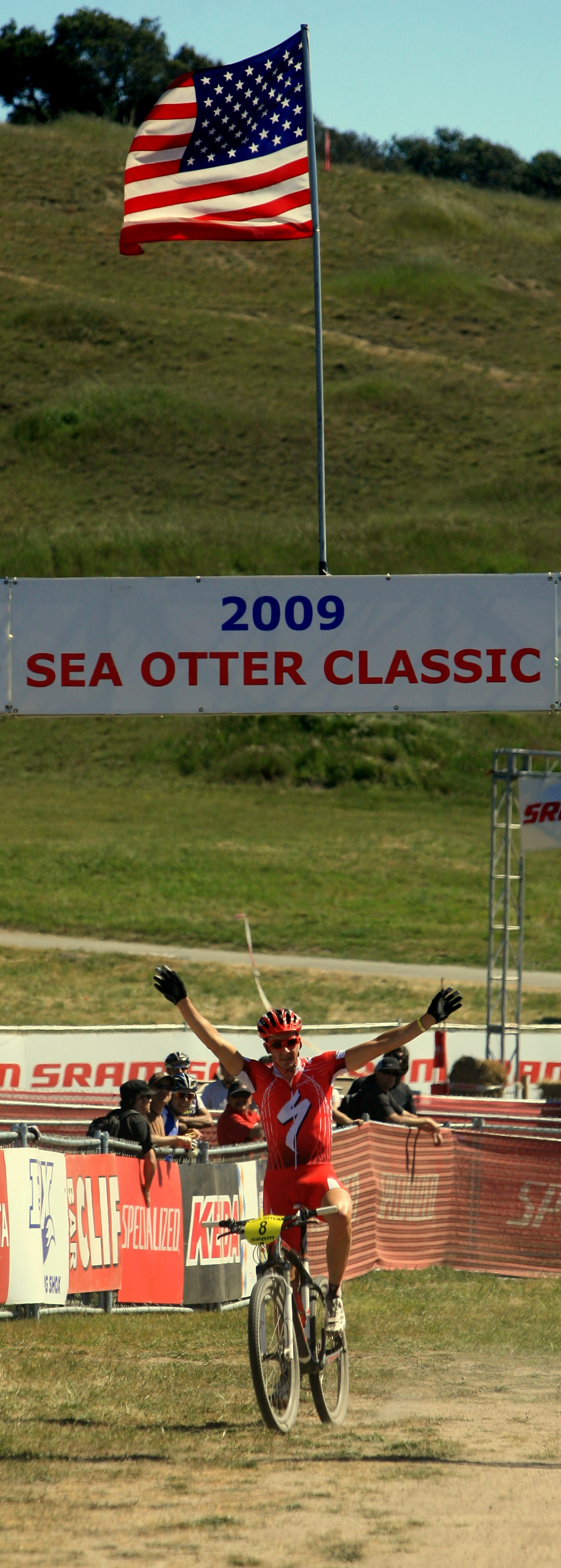 Todd Wells wins the Elite Men's Short Track race at the 2009 Sea Otter Classic in Laguna Seca, CA.